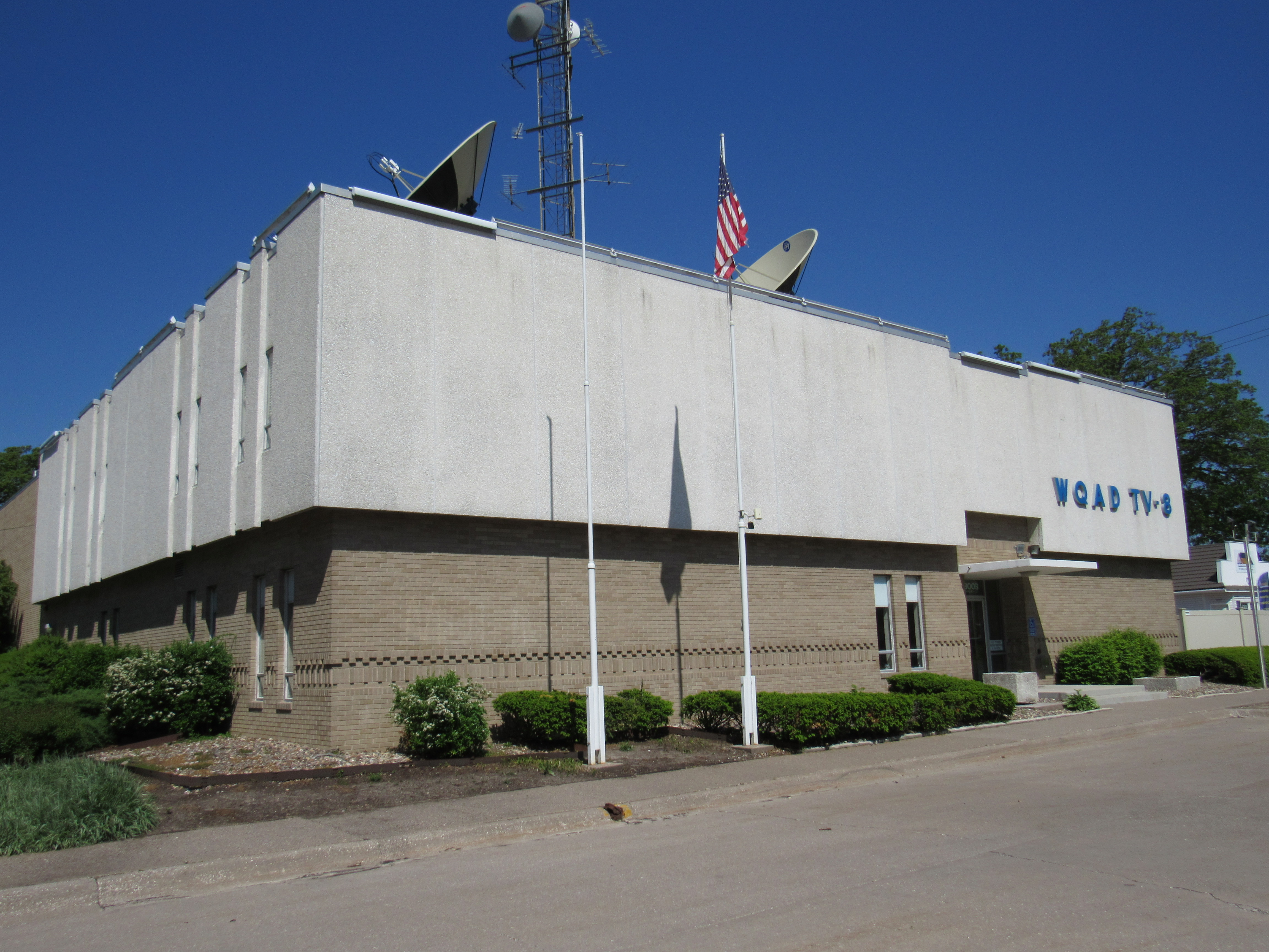 The studios for WQAD-TV in Moline, Illinois. It is the ABC affiliate in the Quad Cities.